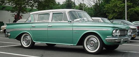 1961 Rambler Classic four-door sedan (finished in green) built by American Motors Corporation (AMC). Picture taken at the 2003 AMCRC car show held in Somerset, New Jersey